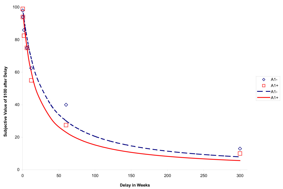 Main effect of DRD2 TaqI A on delay discounting. Subjective value of $100 from one week to twenty-five years for A1+ and A1- individuals. Squares show the median points of indifference for A1+; diamonds show the median points of indifference for A1- subjects. The hyperbolic curves derived from the median k values of A1+ (continuous line) and A1- groups (dotted line) are given. -- Eisenberg et al. Behavioral and Brain Functions 2007 3:2